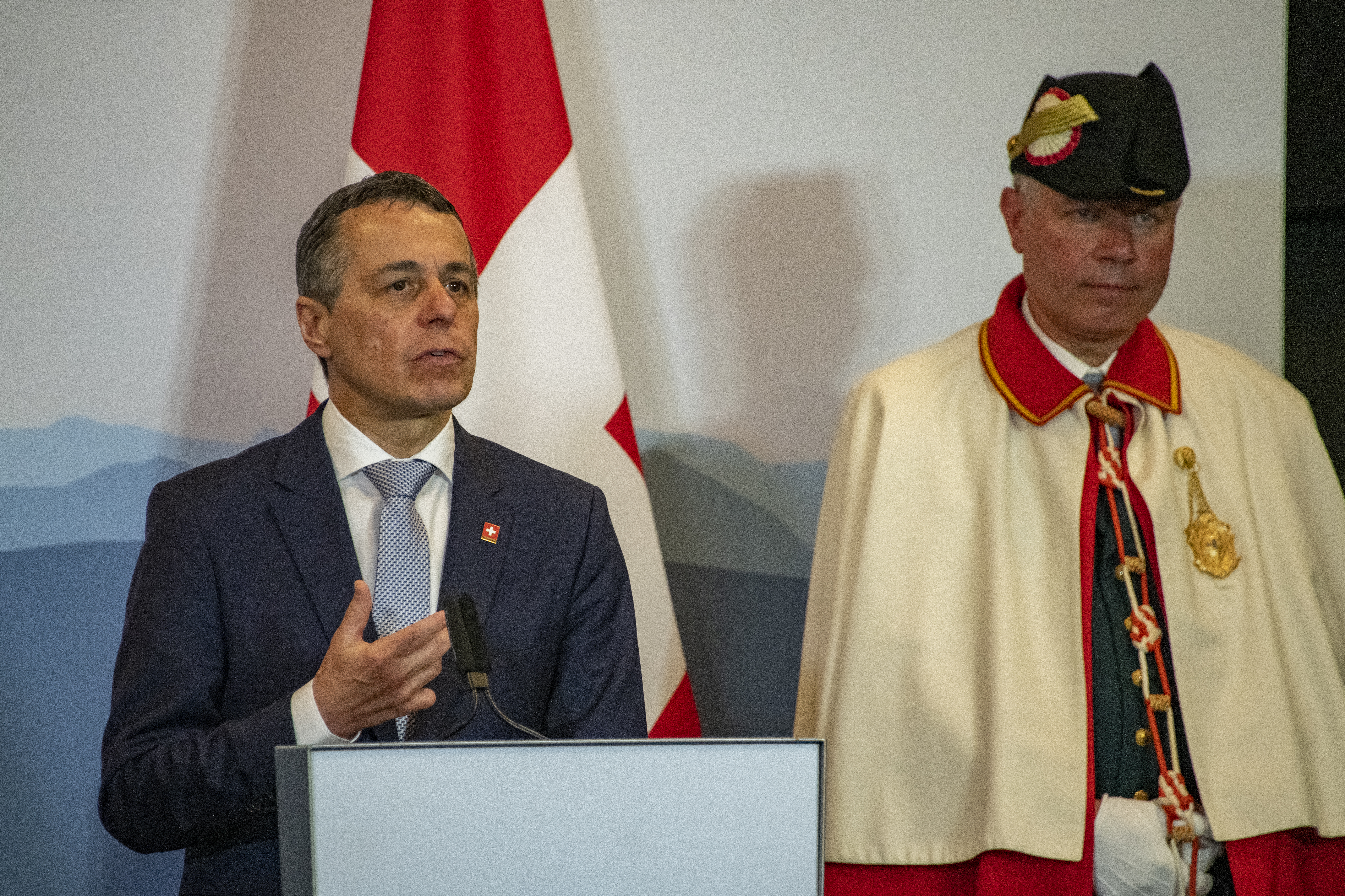 U.S. Secretary of State Michael R. Pompeo holds a joint press availability with Swiss Foreign Minister Ignazio Cassis at Castle Grande in Bellinzona, Switzerland, on June 2, 2019. [State Department Photo by Ron Przysucha/ Public Domain]